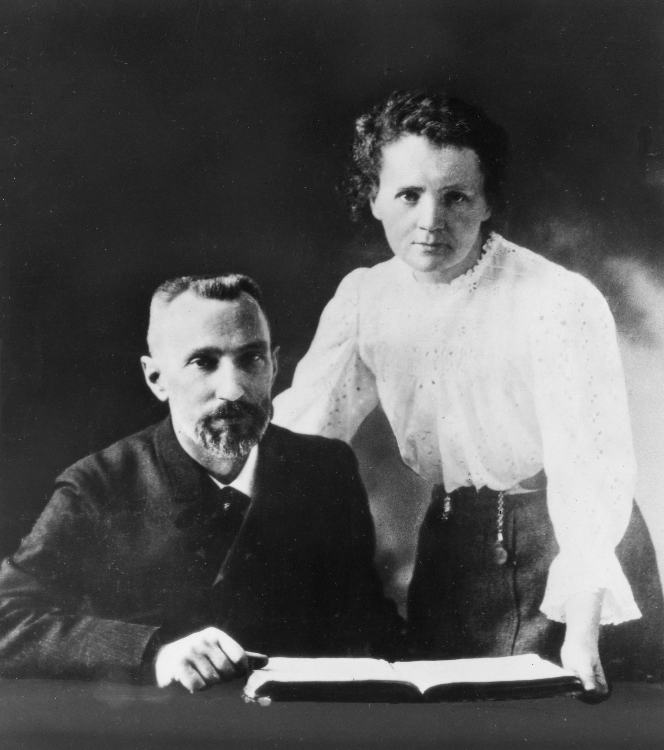 Creator: Science Service Subject: Curie, Marie 1867-1934 Curie, Pierre 1859-1906 Type: Black-and-white photographs Date: 1903 Topic: Nobel Prizes Physics Women scientists Local number: SIA Acc. 90-105 [SIA2008-0751] Summary: Pierre Curie (1859-1906) and Marie Sklodowska Curie (1867-1934) were jointly awarded the Nobel Prize for Physics in 1903 for discovery of the radioactive elements polonium and radium. Even today, the Curies provide inspiration for popular culture and textbook discussions of science. This photograph was circulated during the 1960s as publicity for an educational television program about the discovery of radium Cite as: Acc. 90-105 - Science Service, Records, 1920s-1970s, Smithsonian Institution Archives Persistent URL: Repository:Smithsonian Institution Archives View more collections from the Smithsonian Institution.